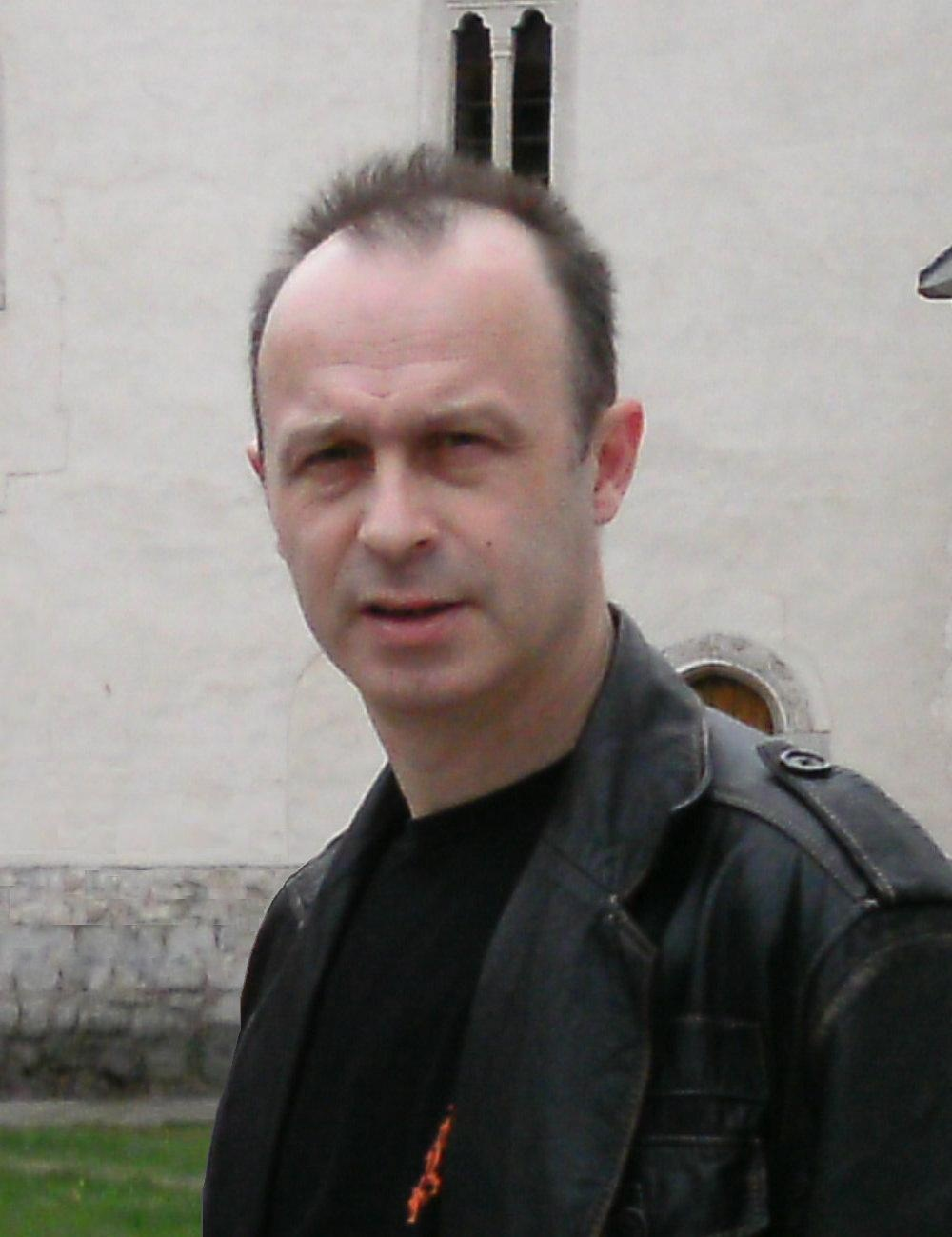 Photo by: Ivan Kovalčík, The photo shows Author: Ivan Kovalčík Mileševac, Capture date and time: 23:57, 10 march 2010.